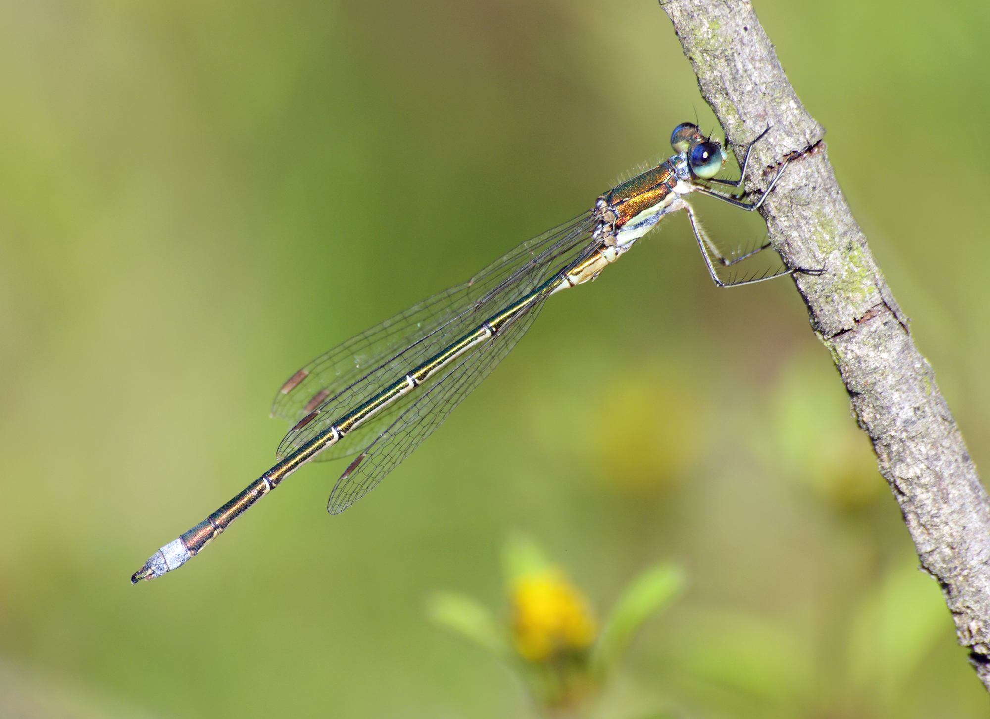 The Small Spreadwing, Lestes virens vestalis, male specimen. Total length: ~35 mm.